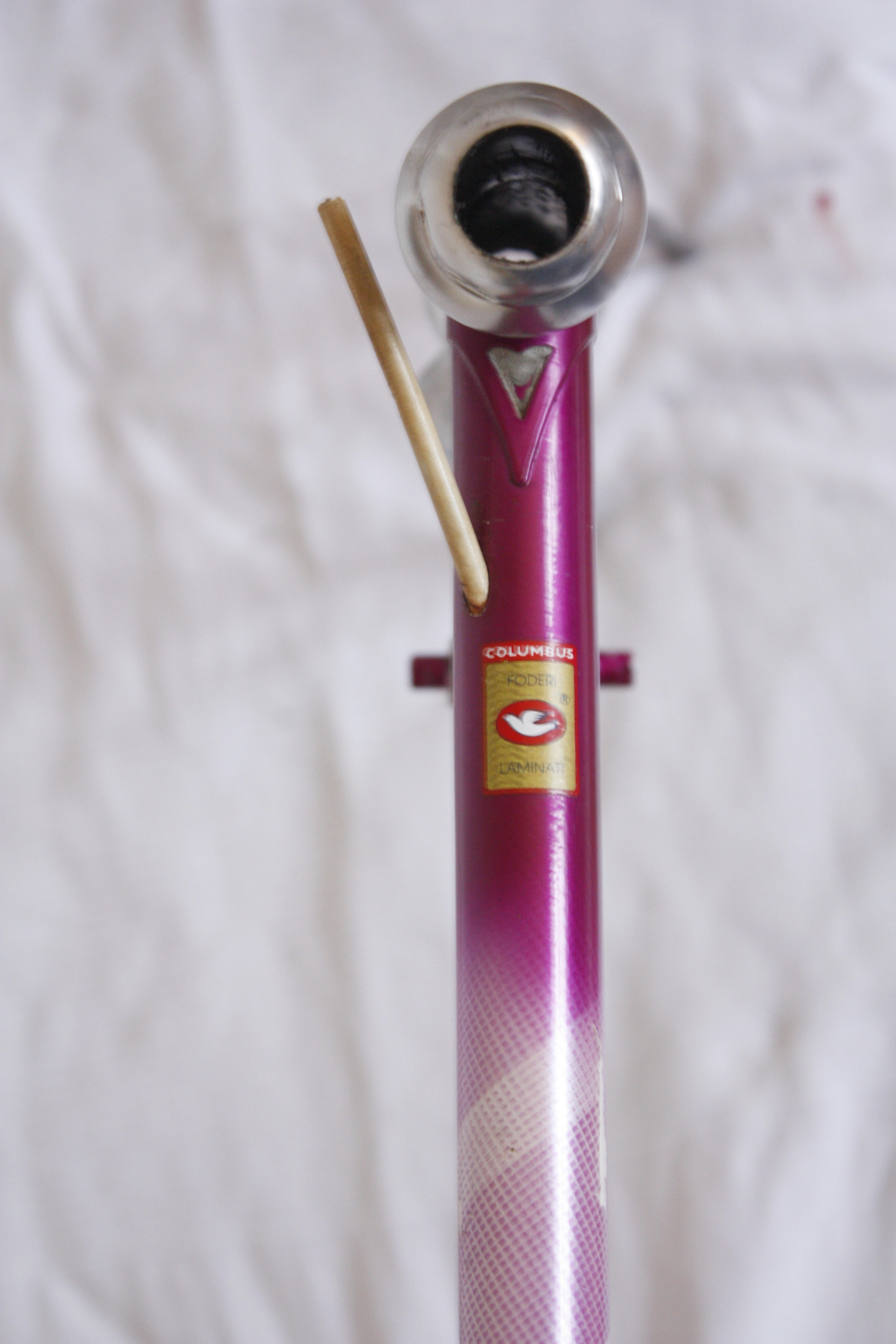 Road Bike Frame Giovanni with Columbus Aelle Brand